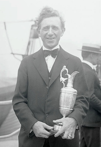 Jock Hutchinson of Chicago, winner of the British Golf Open Championship at St. Andrews last month, shown holding the cup which was presented to him after winning the British Championship.